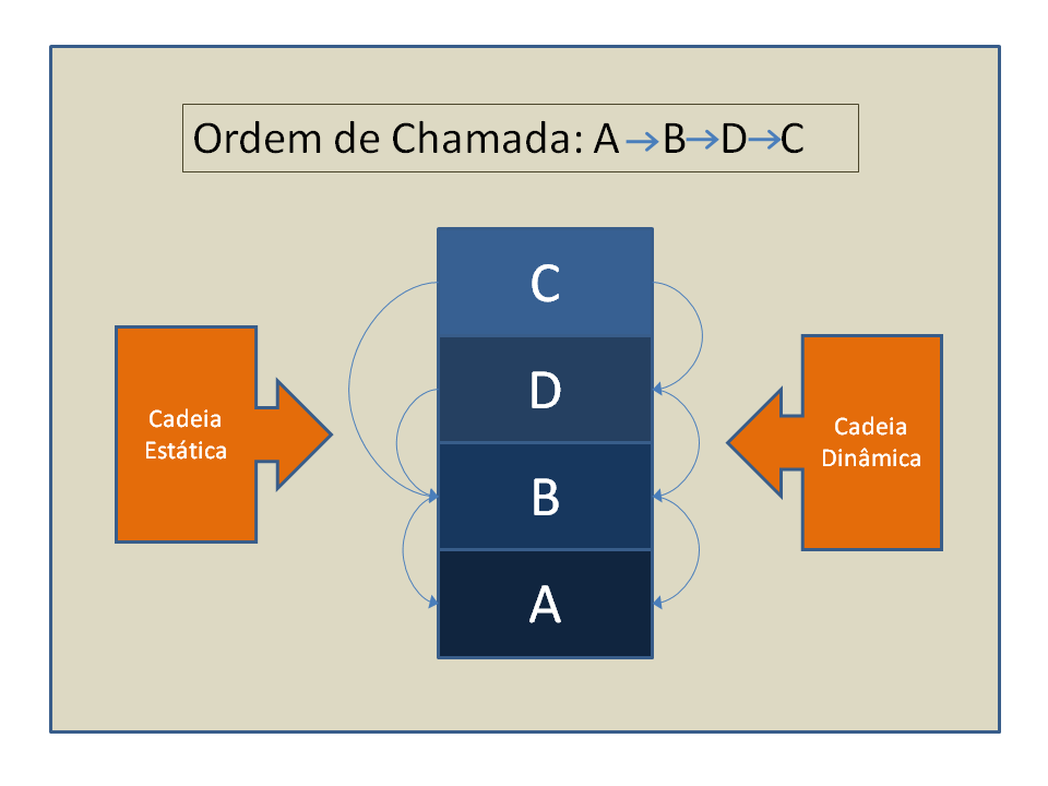 static scope